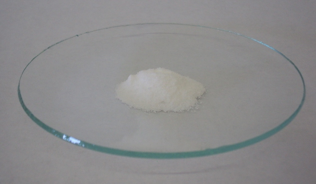 Diphenylacetic acid